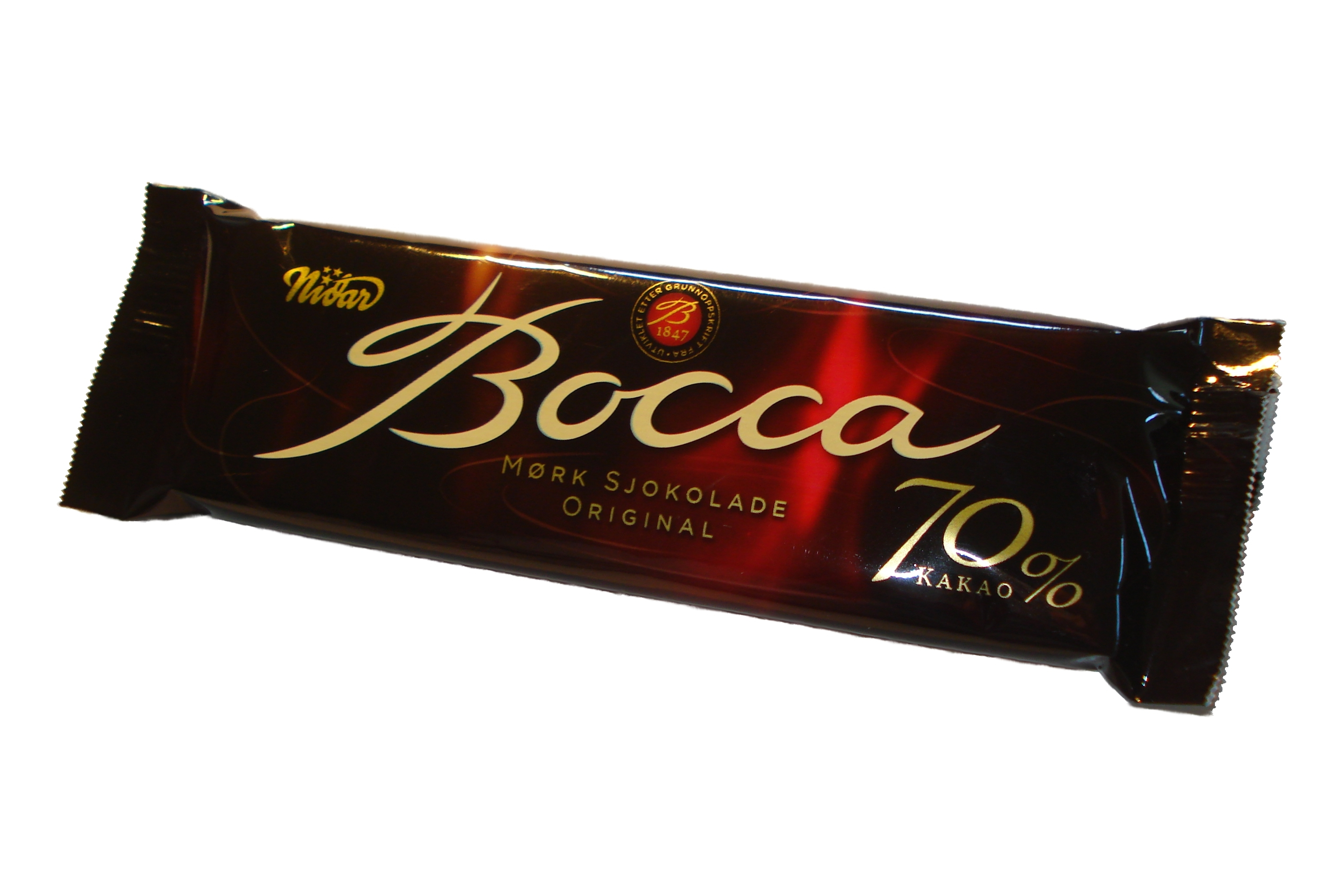 Image of a "Bocca"-chocolate.